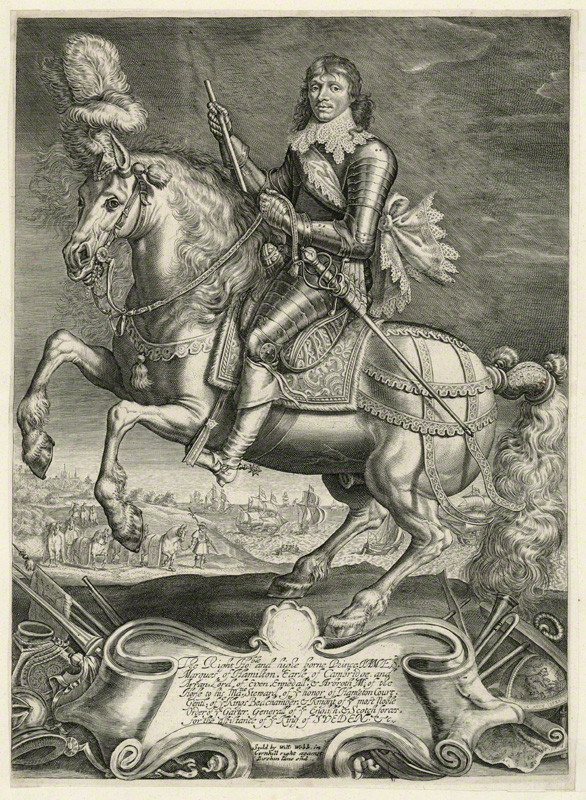 Line engraving of James Hamilton, 1st Duke of Hamilton by Willem de Passe, published by William Webb